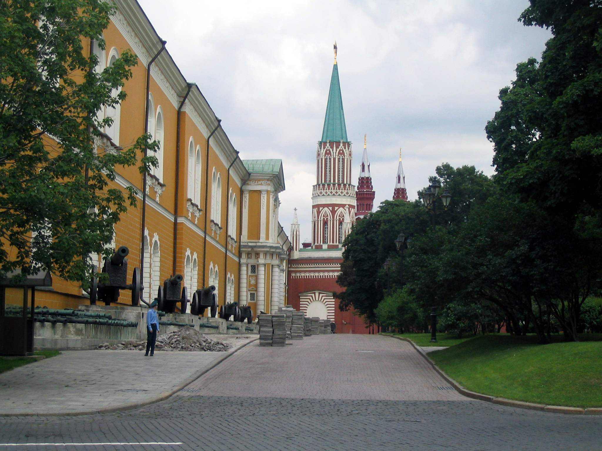 Image of the arsenal at the Kremlin (on left in yellow) with cannons out front. Taken by me 7/06, released into public domain